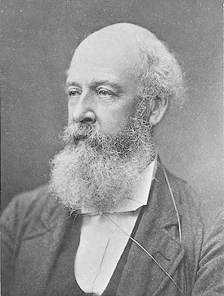 Professor Rev. Dr Charles Badham, Professor of Classics at the University of Sydney 1867-1884